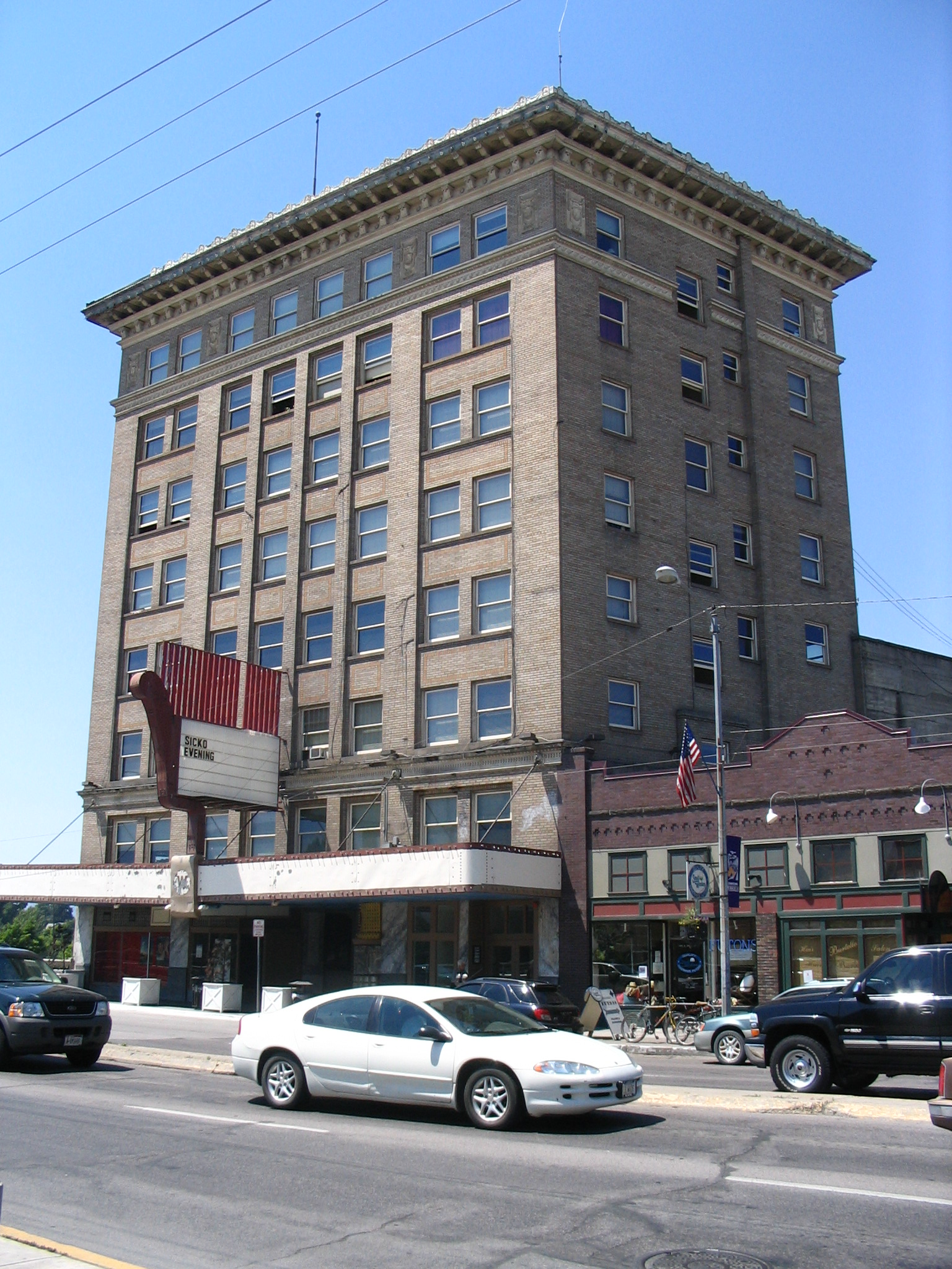 The Wilma Theater is located in the Smead - Simons Building in Missoula Montana, built in 1921. It is located on the National Register of Historic Places.